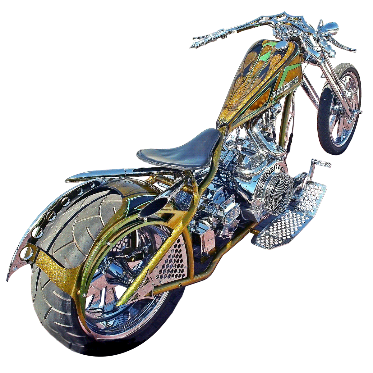 Dixie Chopper (lawn mowers) custom motorcycle by Orange County Choppers on display at a lawn mower retailer in Indiana.